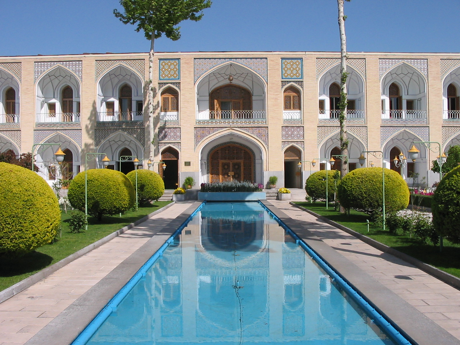 Abbasi Hotel Esfahan